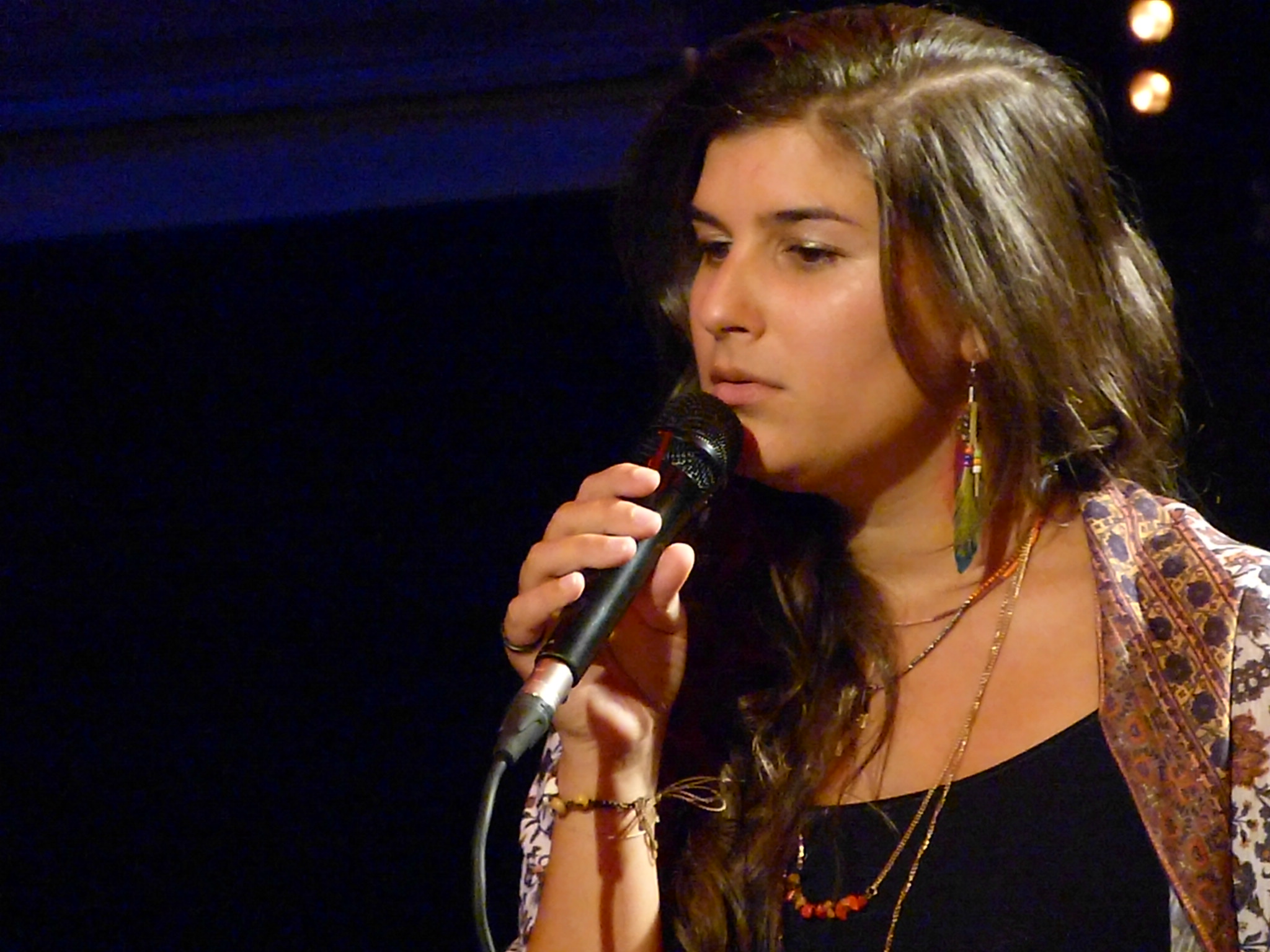 Filippa Gojo in concert of the Gender balanced Group (with Tamara Lukasheva (voc), Reza Askari (b) and Dierk Peters (vib)) at ARTheater Cologne, Germany, September 15th, 2015